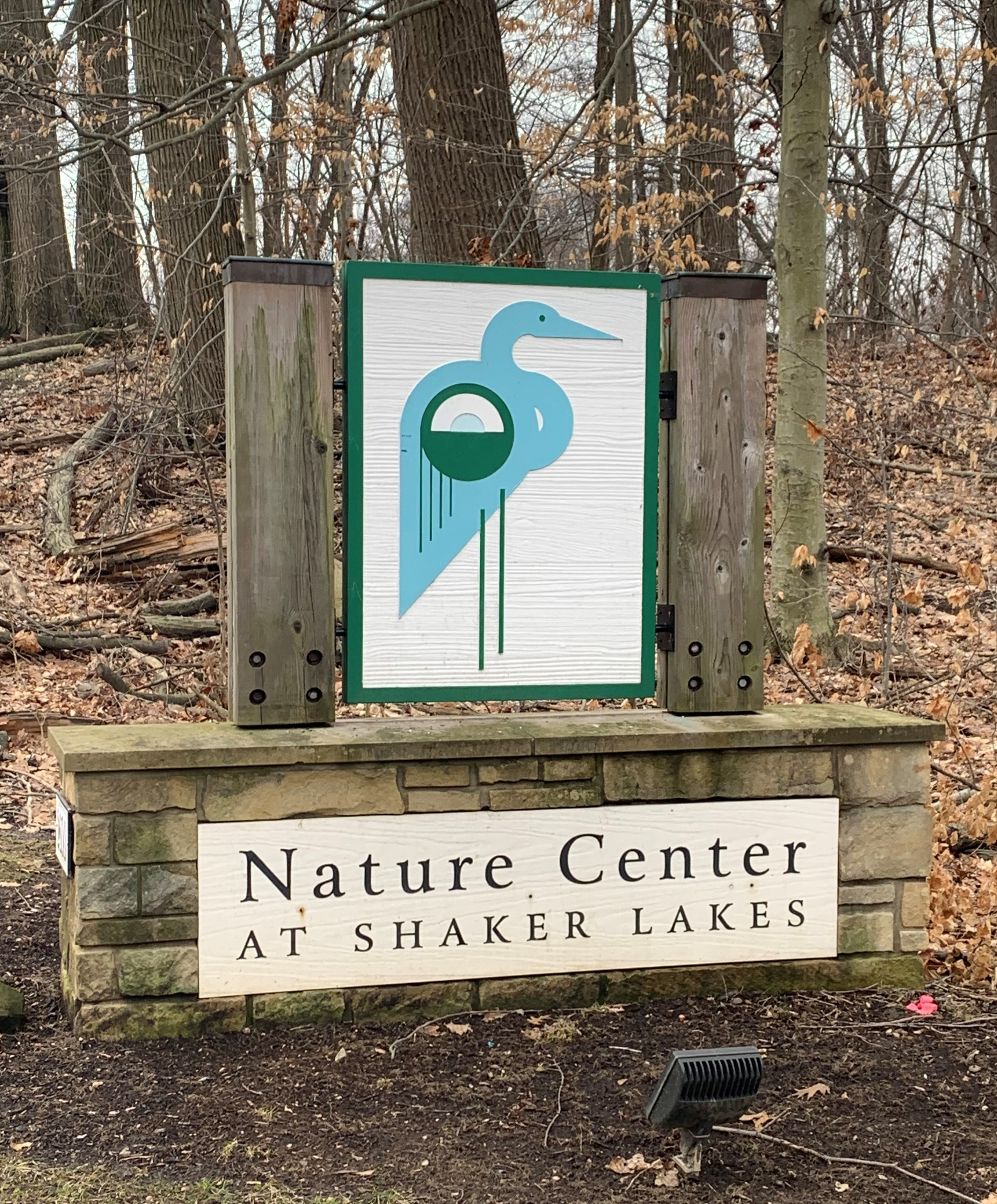 The Nature Center at Shaker Lakes front sign is a modern Charley Harper inspired design featuring a great blue heron.